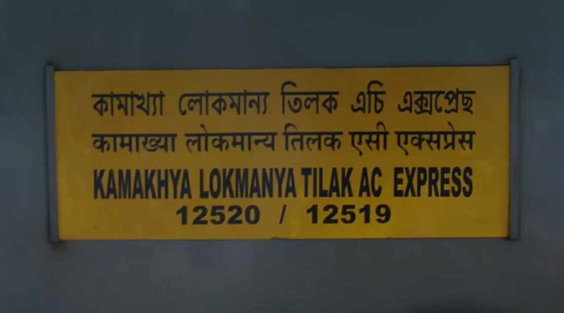 Trainboard of Mumbai LTT Kamakhya AC Express